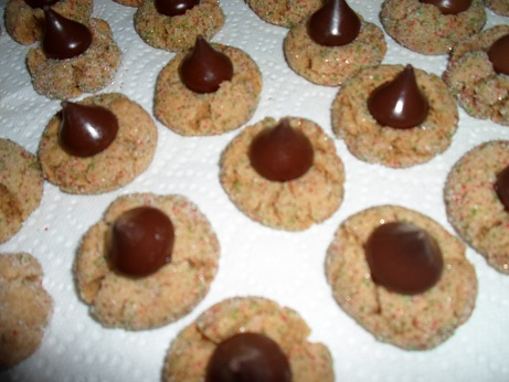 Peanut Butter Kiss Cookies